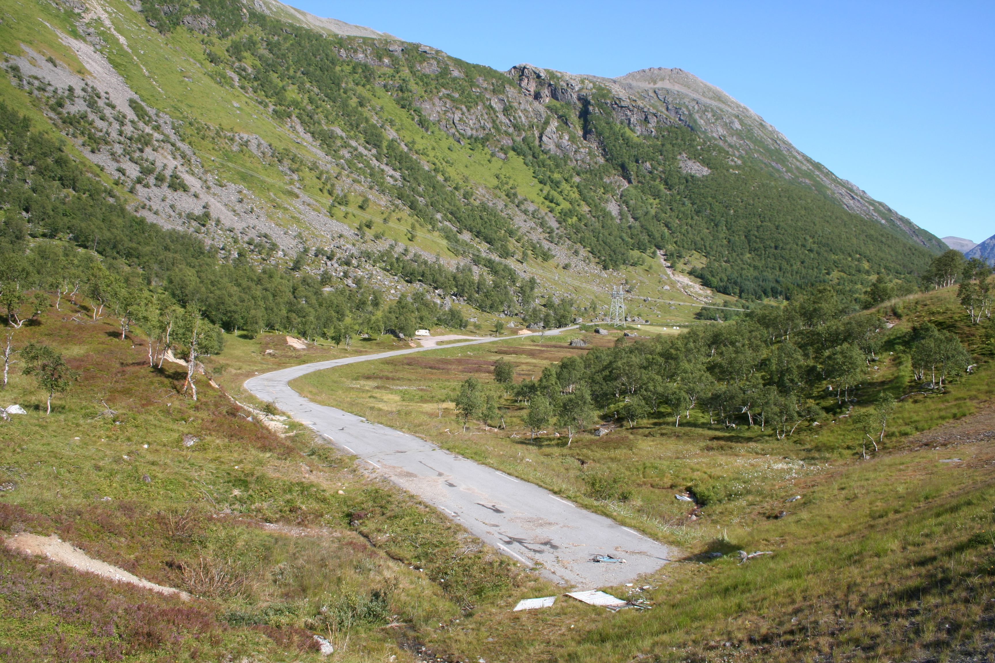 Abandoned road in Langvassdalen on the border between Sortland and Kvæfjord in Norway